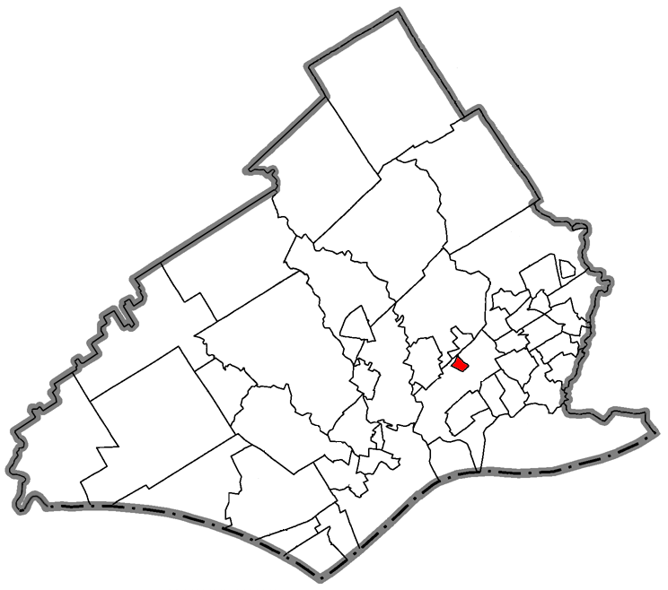 Showing the location within Delaware County, Pennsylvania.